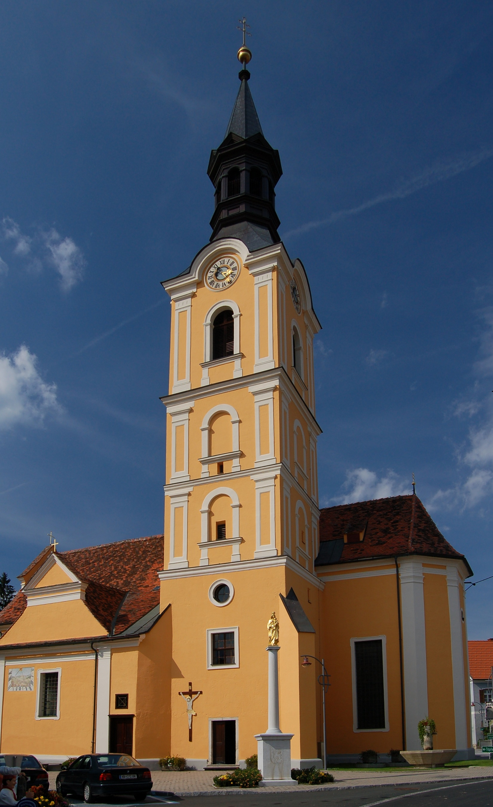 Parish church St. Michael in Grafendorf bei Hartberg, Styria, Austria